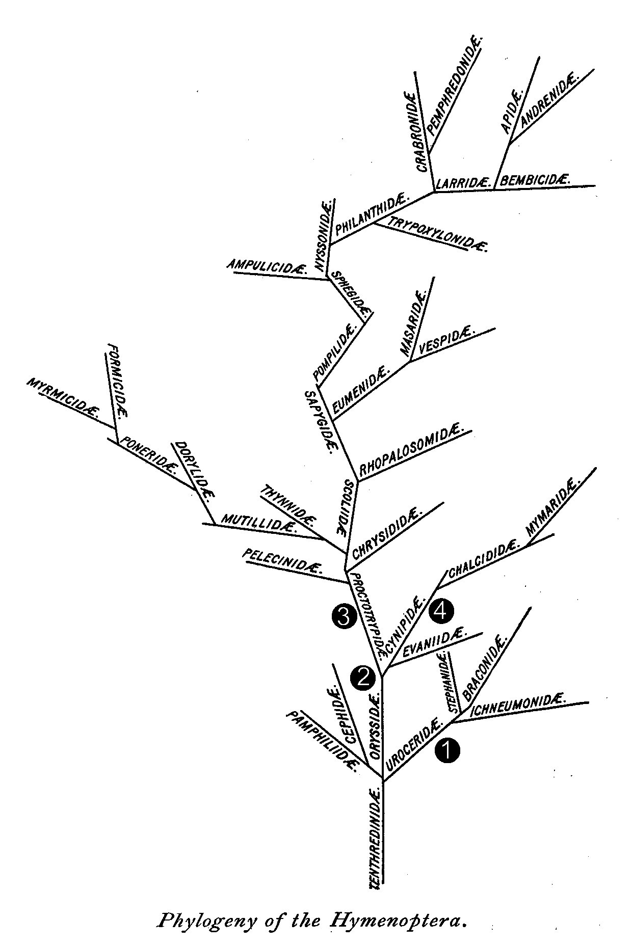 First tree of the hymenoptera by ashmead